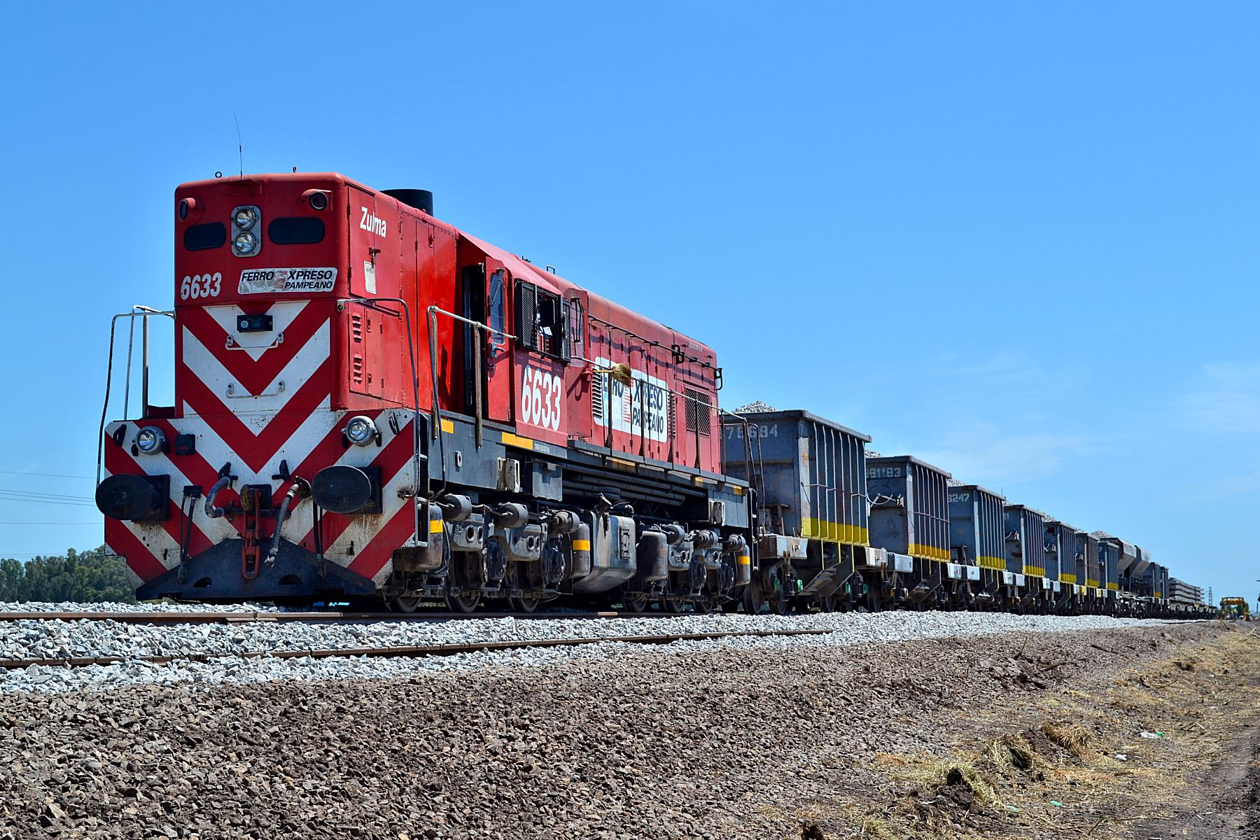 A Ferroexpresso Pampeano train carrying tracks and ballast for construction works on the General Roca Railway.